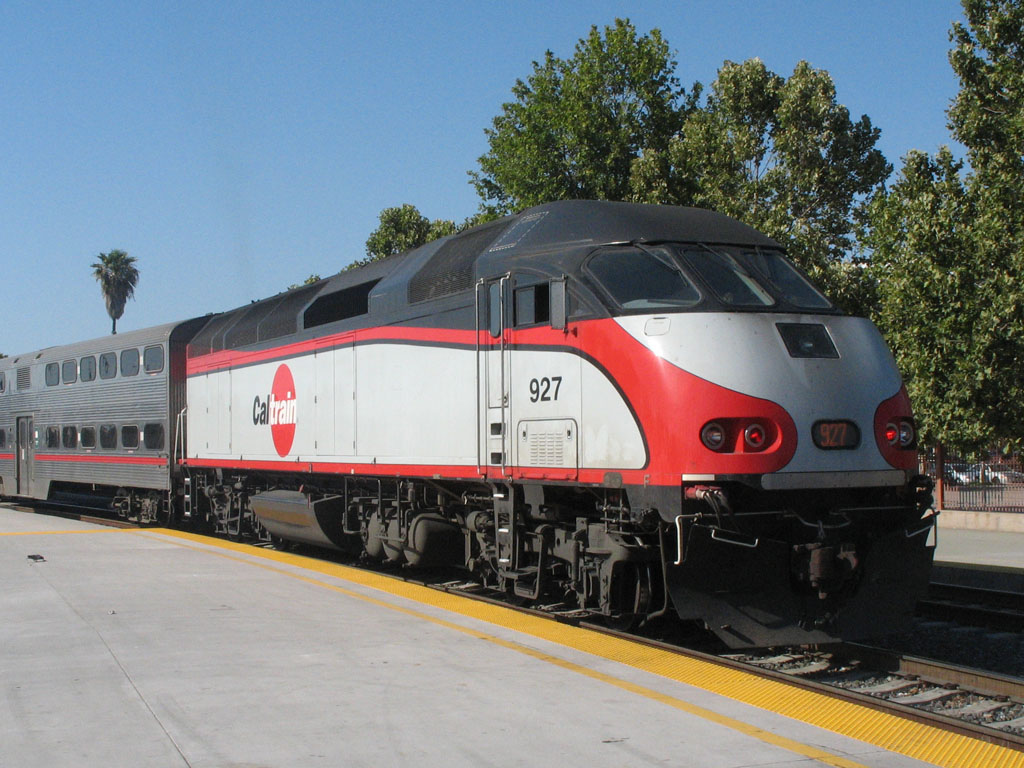 Caltrain MPI MP36PH-3C #927 at San José Diridon Station.